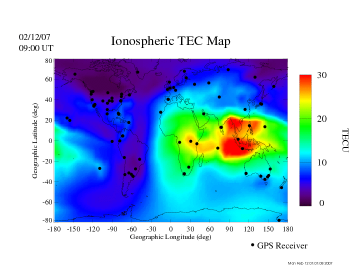 Snapshot of the electron density in the ionosphere, measured by GPS ground stations